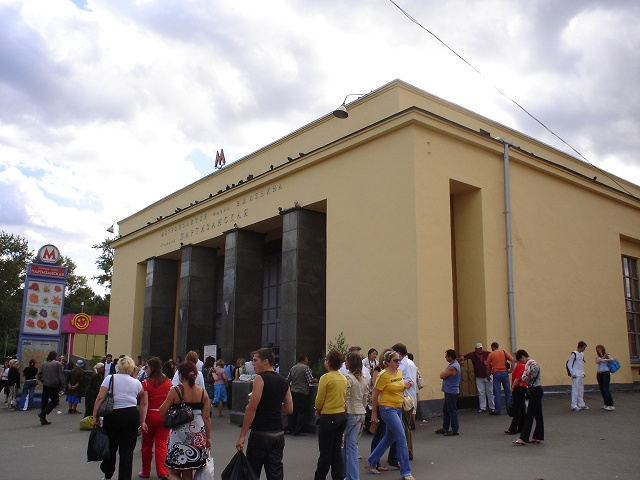 Partizanskaya Metro Station in Moscow, Entrance